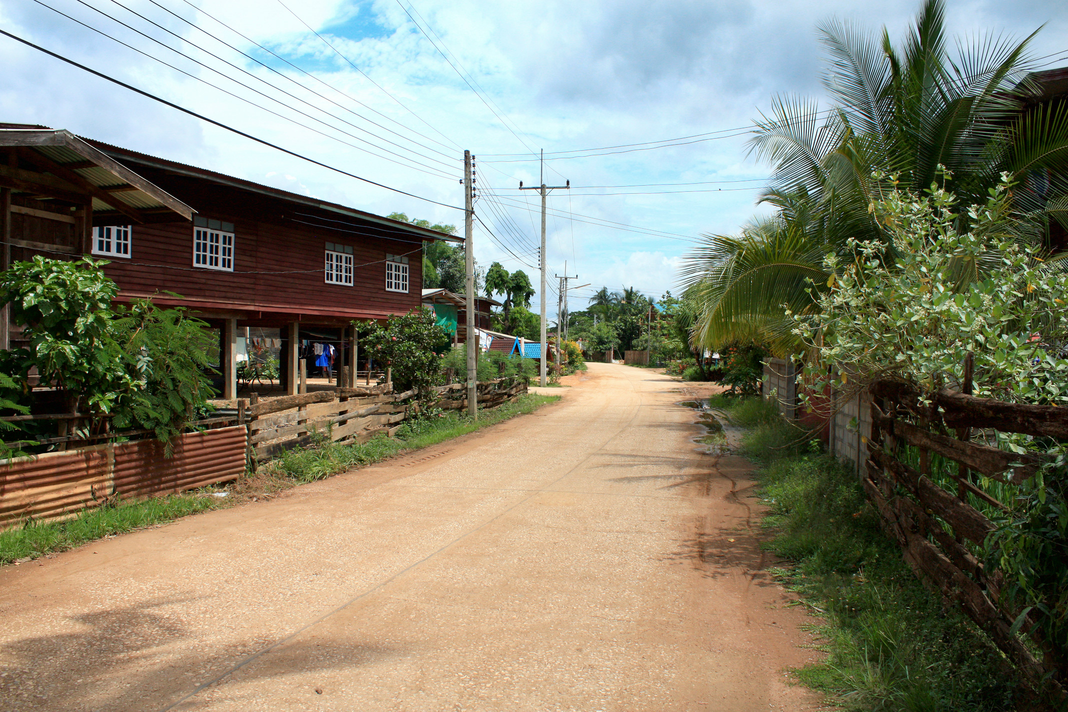 village road, Tambon Ban Kaeng, Si Satchanalai district, Sukhothai province, Thailand